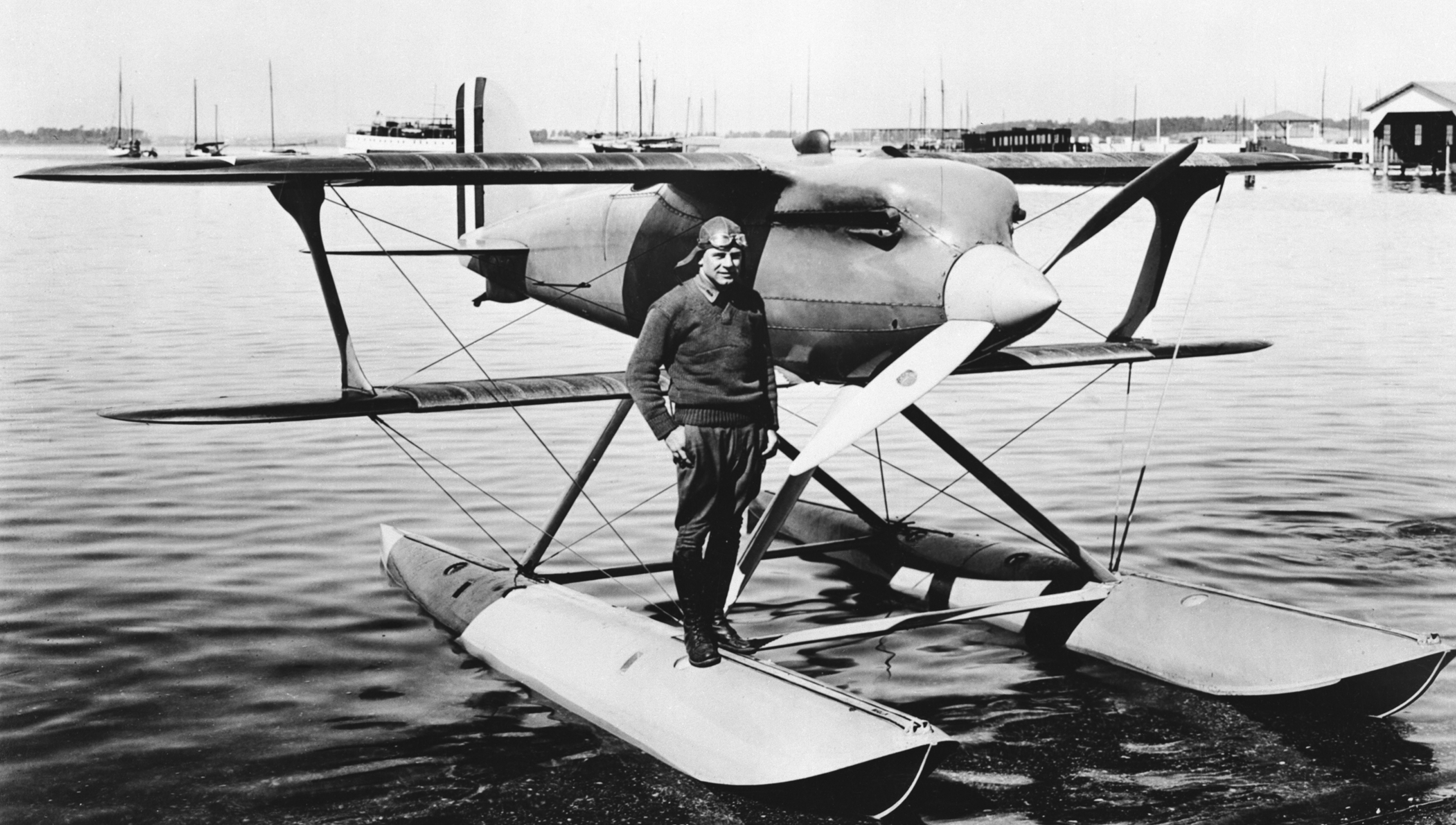 James H. Doolittle, the NACA's last chairman, visited Langley in February 1928 in his Curtiss R3C-2 Racer, the plane in which he won the 1925 Schneider Trophy Race.